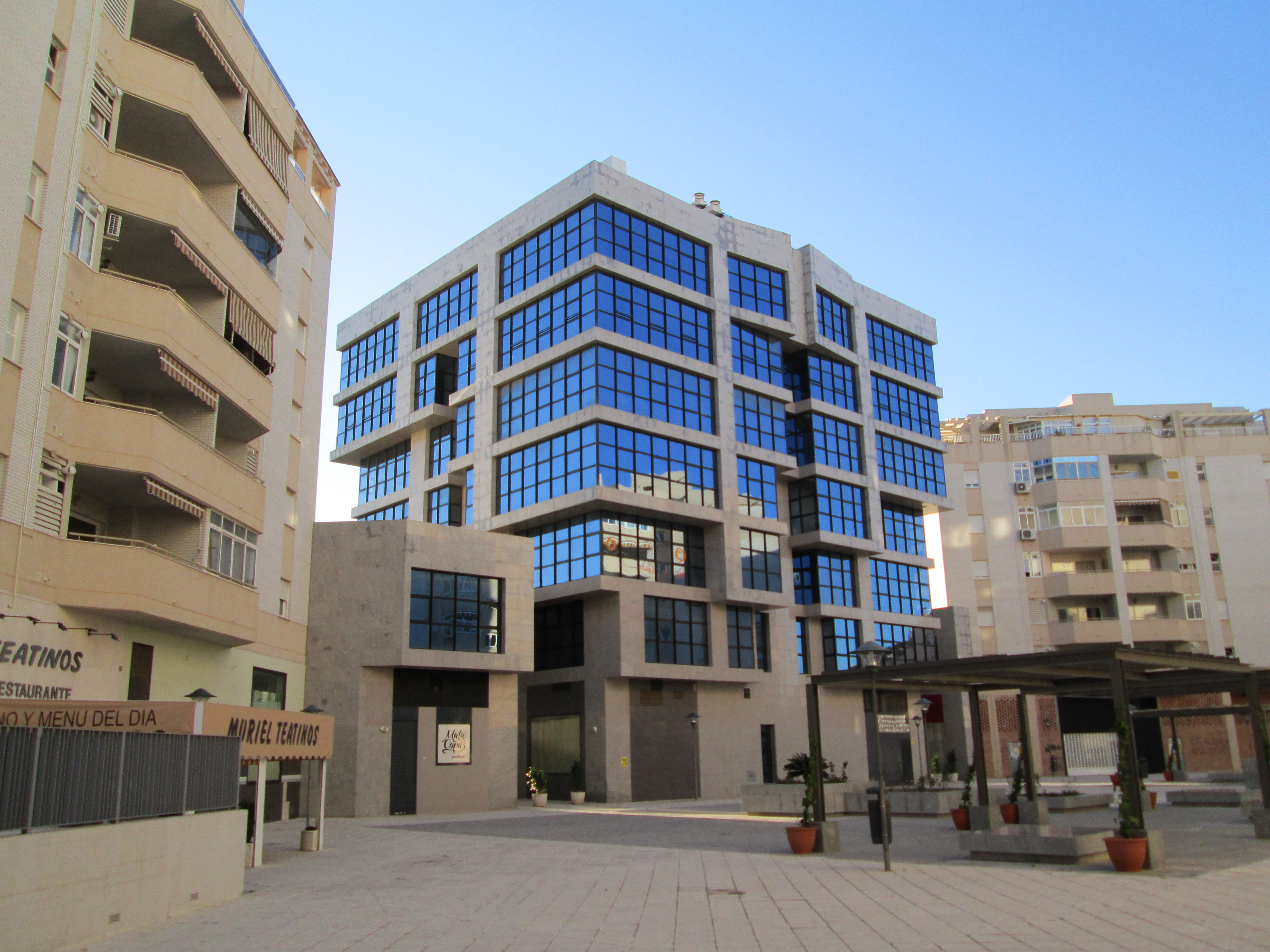 Málaga